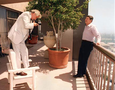 President Reagan poses for Life photographer Harry Benson on the balcony of the Ronald Reagan Suite, Century Plaza Hotel • August 28, 1987